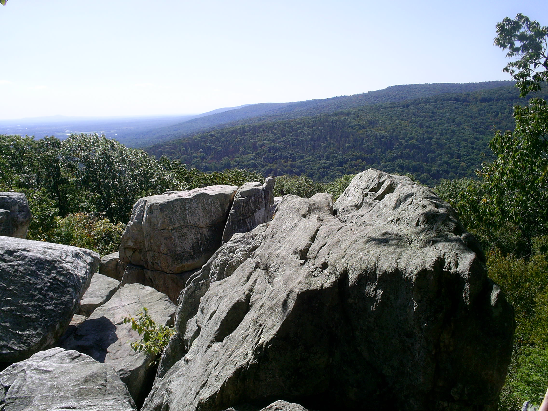 This is the Chimney Rock Vista at Catoctin Mountain Park